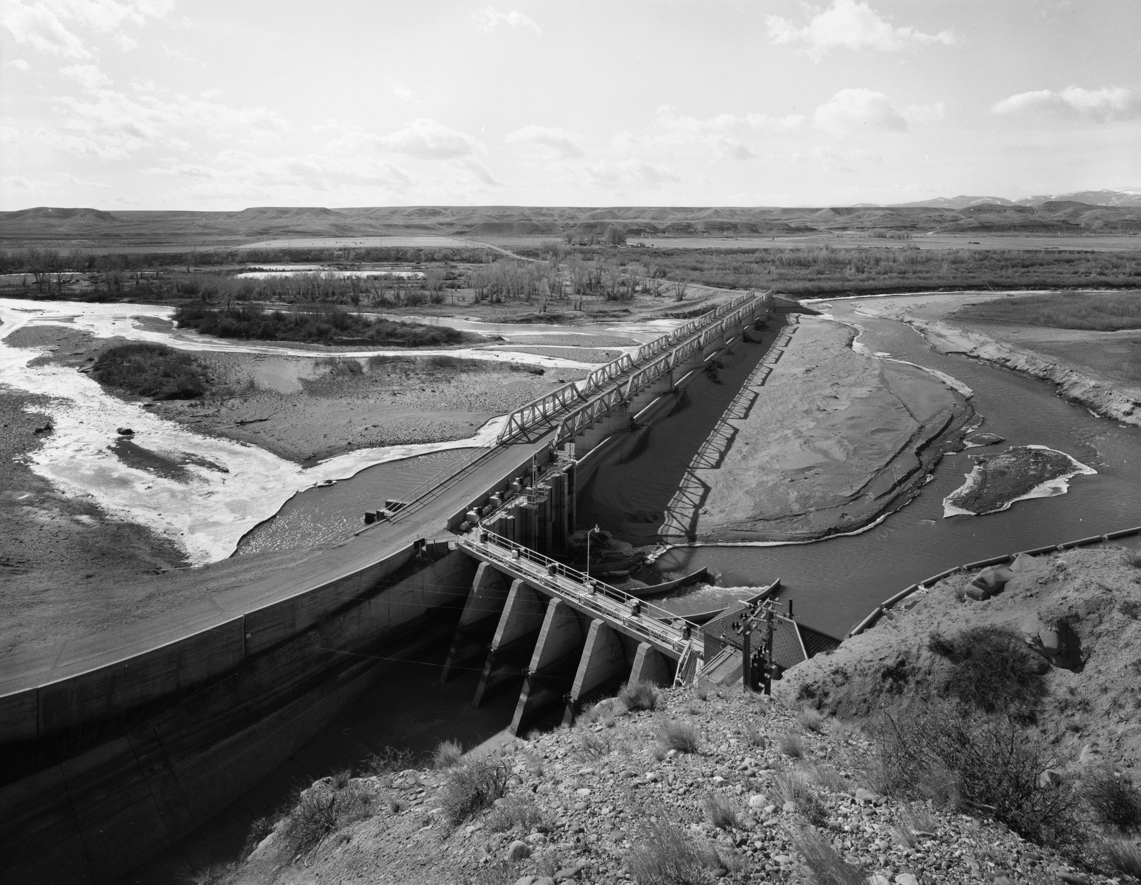 Northern end of the ELY Wind River Diversion Dam Bridge, which carries County Road CN10-24 over the Wind River near Morton in Fremont County, Wyoming, United States. Built in 1924, this eight-span Warren pony truss bridge has more spans than any other highway bridge in the state. It is listed on the National Register of Historic Places.